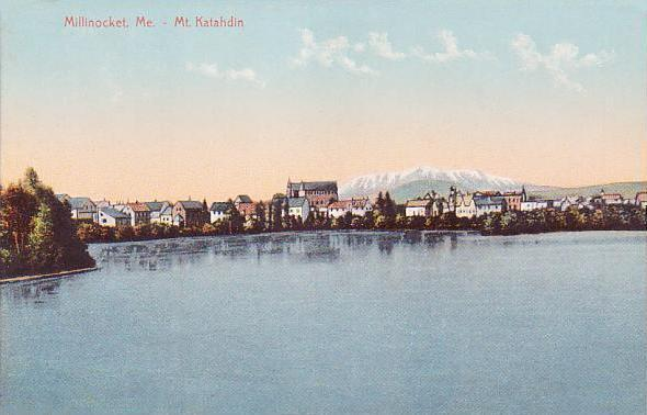 View of Millinocket (town) on the Penobscot River — with Mount Katahdin in backround, in Penobscot County, Maine.